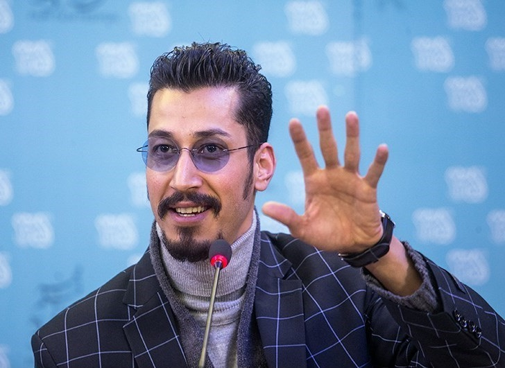 بهرام افشاری در نشست خبری فیلم کارگر ساده نیازمندیم - سی و پنجمین جشنواره فیلم فجر